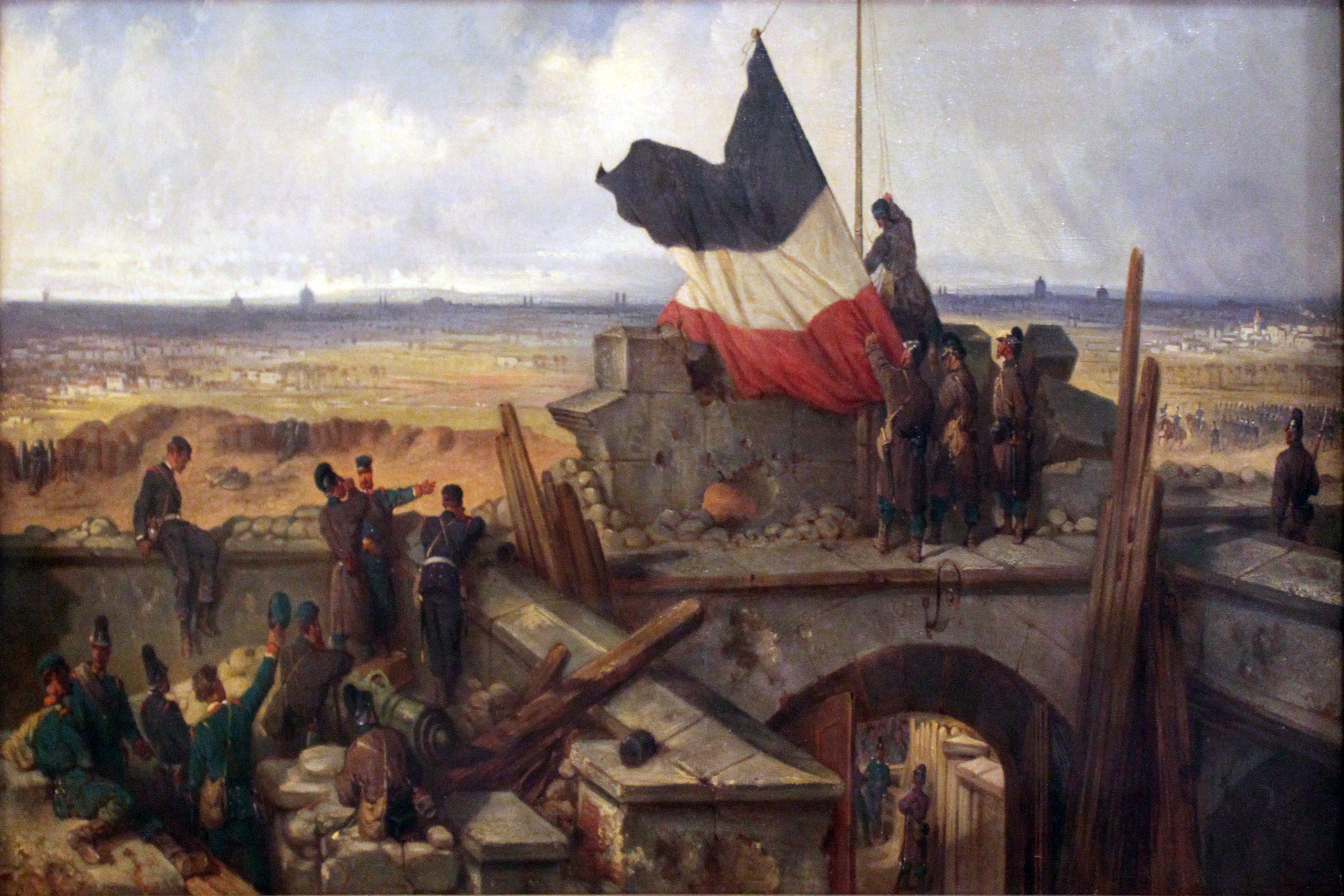 Hosting the German Flag at Fort Vauves outside Paris on 29th January 1871